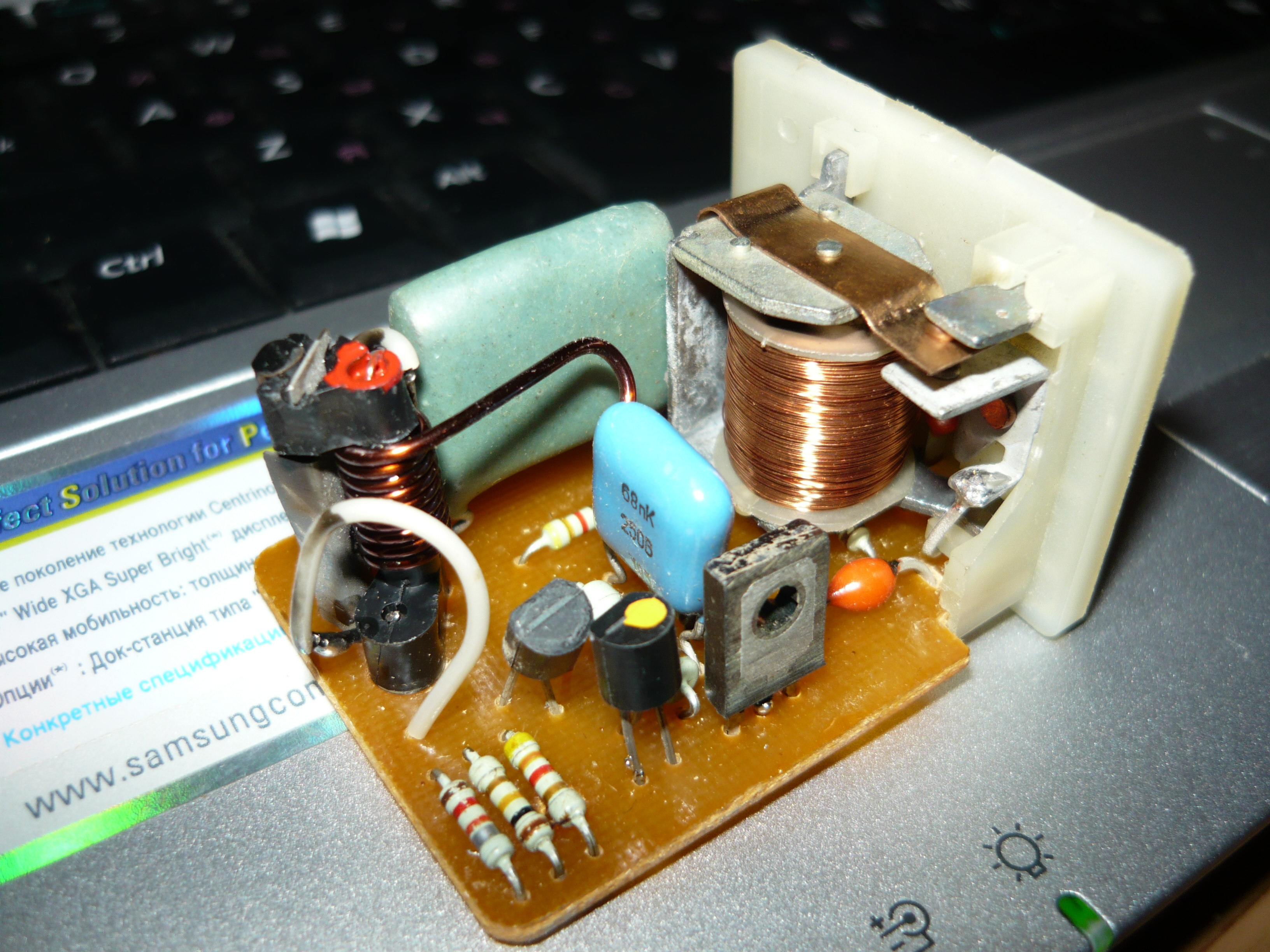 VAZ 2109 (Lada Samara) turning light / emergency light interrupter relay.